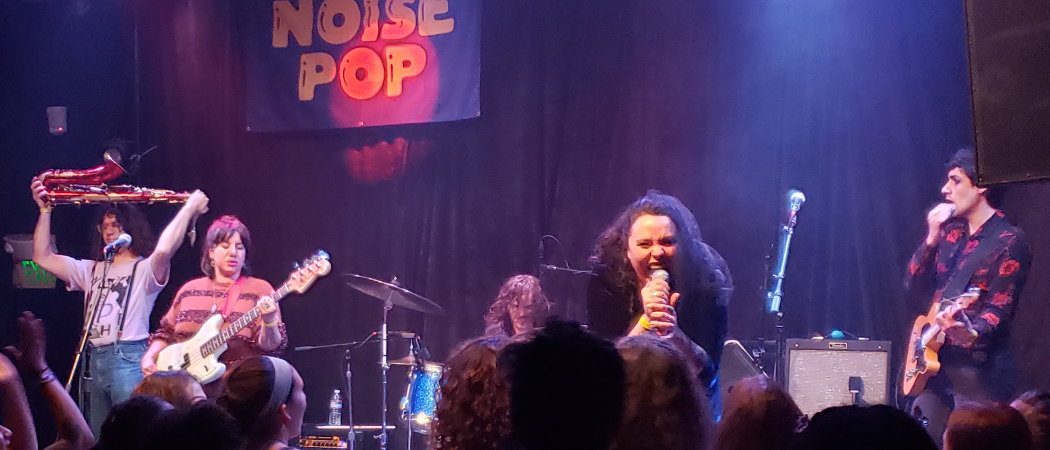 Downtown Boys performing at the Rickshaw Stop in San Francisco, California, United States